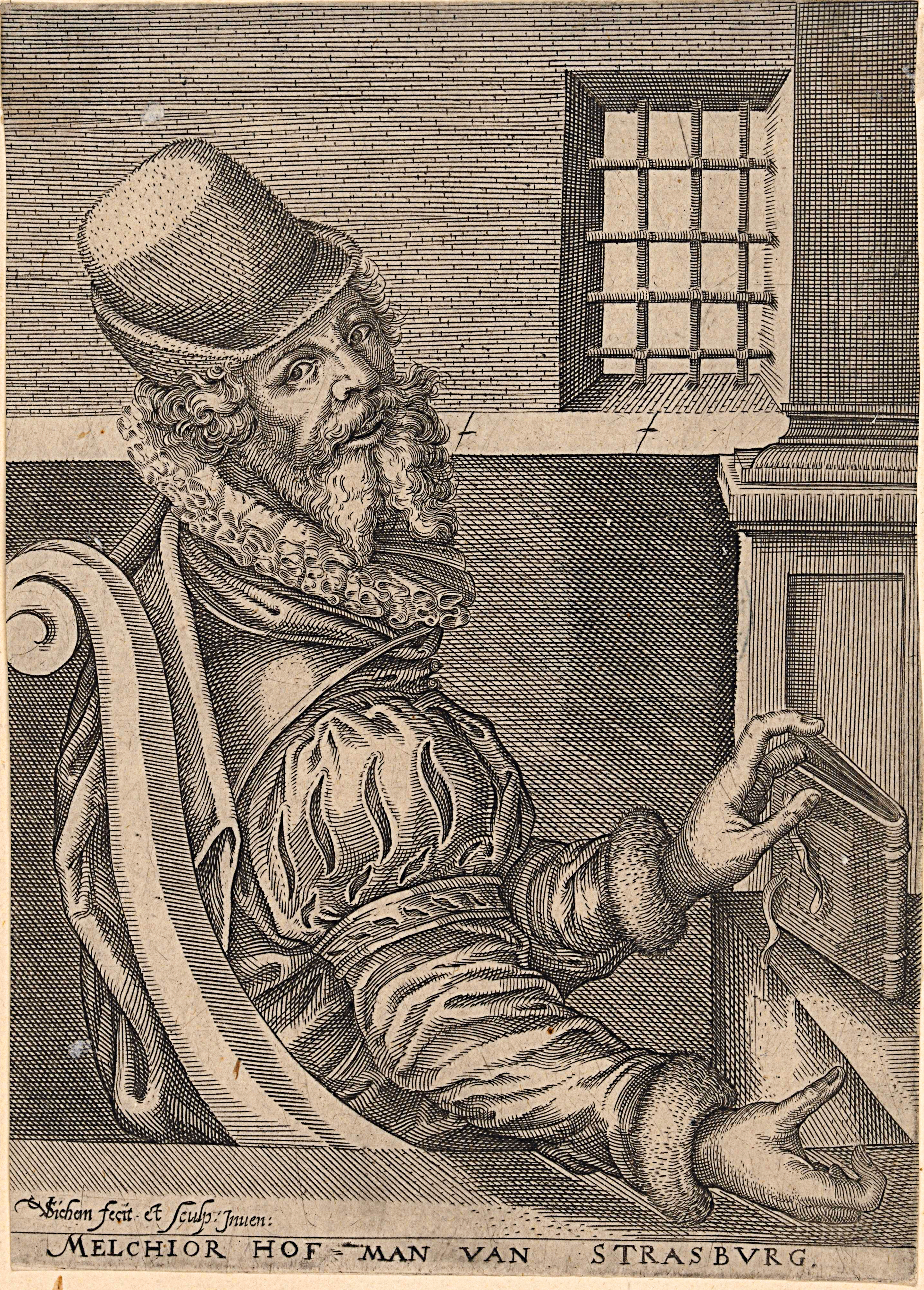 German anabaptist Melchior_Hofmann, 16th Century (the German Wikipedia)